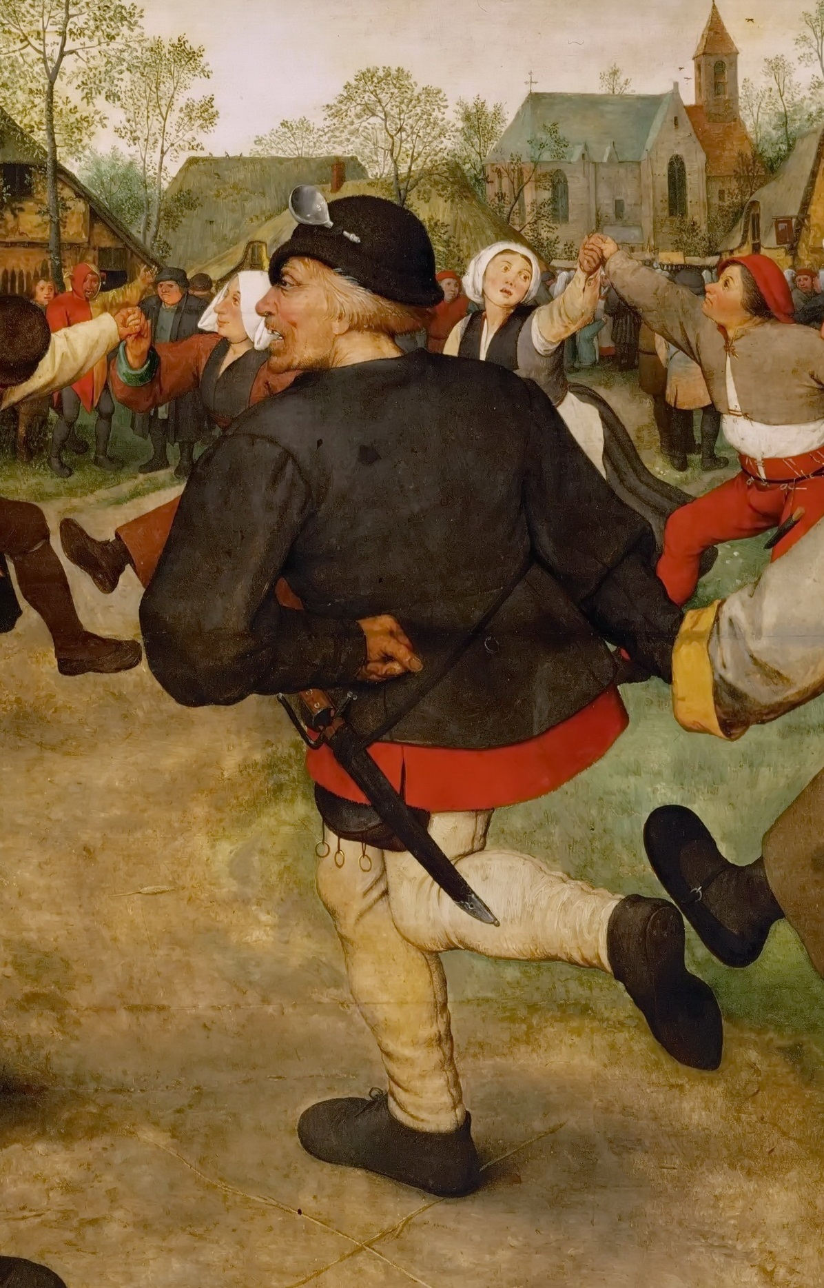 Pieter Brueghel, The Wedding Dance in the Open Air (detail to show costumes) Oil on canvas, 47 inches x 62 inches. Detroit Institute of Art.